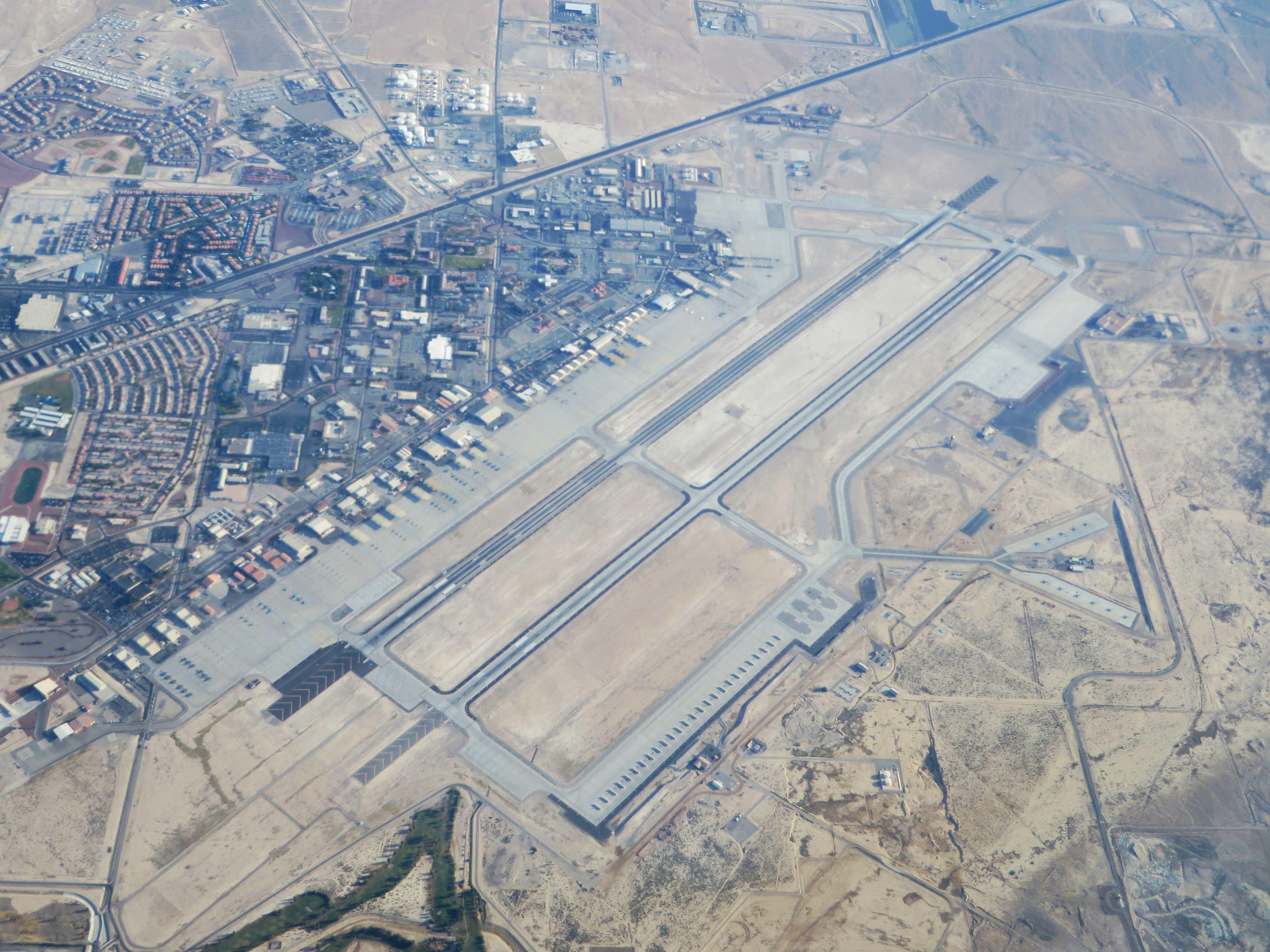 Nellis Air Force Base is a United States Air Force base located in North Las Vegas, Nevada. It is seven nautical miles (13 km) northeast of the central business district of Las Vegas. It was named in honor of P-47 pilot 1st Lieutenant William Harrell Nellis, who was killed in WWII during the Battle of the Bulge. An installation of the Air Combat Command (ACC), Nellis is the location of the United States Air Force Warfare Center and is a major training location for both U.S. and foreign military aircrews. The main base covers approximately 11,300 acres (4,600 ha). Sixty-three percent of it is undeveloped, while the remaining area is either paved or contains structures. The base consists of three major functional areas. Area I includes the airfield and most of the mission support functions. Area II is east of Area I and contains the munitions area. Area III is across Las Vegas Boulevard from Area I. It contains housing, Mike O'Callaghan Federal Hospital, and open space. The associated Nevada Test and Training Range is located to the west in Nye and several other counties.